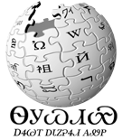 Logo of the Cherokee Wikipedia